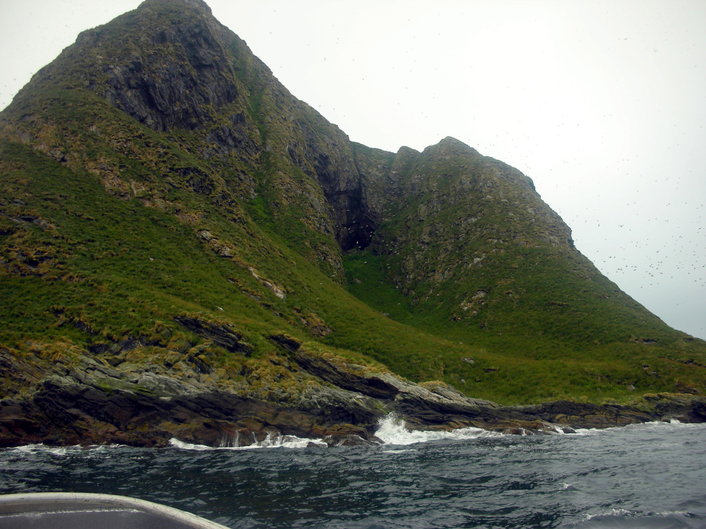 The small hole in the island Bleiksøya, near Andenes, Norway.